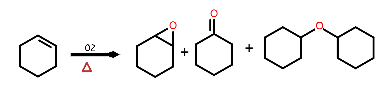 Cyclohexane oxidation from air